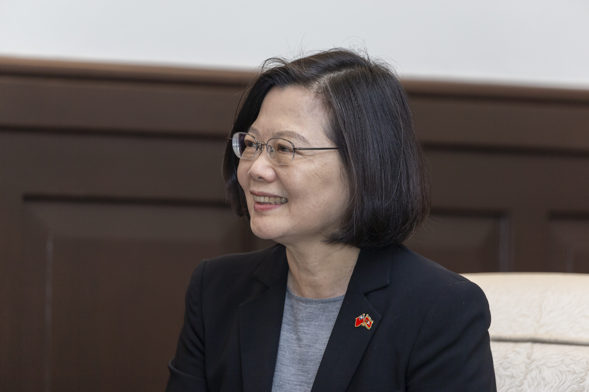 Official Photo by Mori / Office of the President